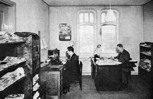 The office of Hämeen Yhteistyö. Arvi Laakso and Aarre Nojonen.